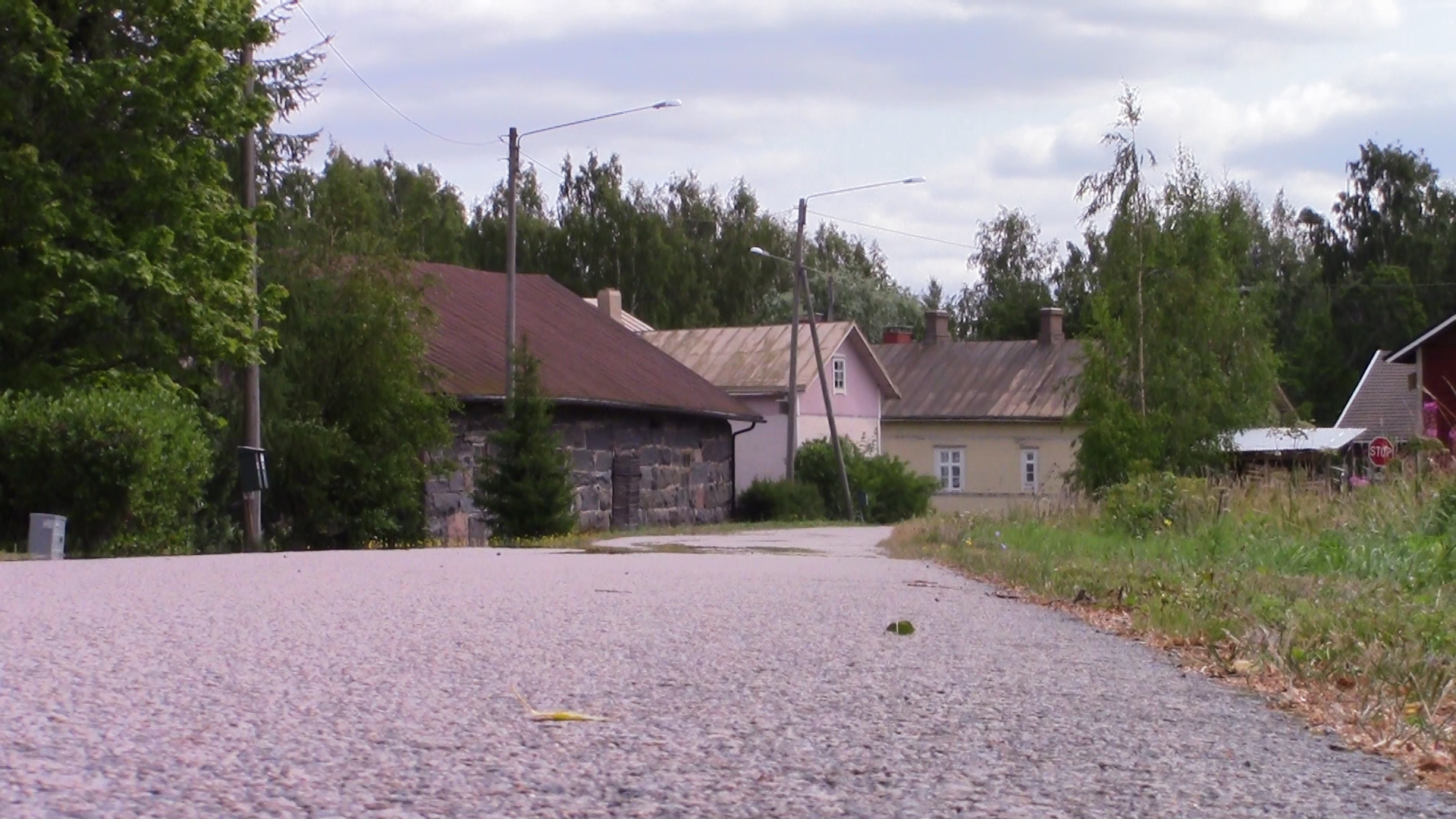 Masia suburb as seen from Myllärintie road in Nakkila, Finland.